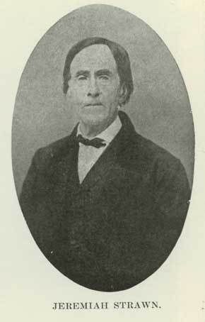 Ottawa, Illinois resident Jeremiah Strawn. He had the Strawn House constructed in Ottawa, a National Register of Historic Places listing.